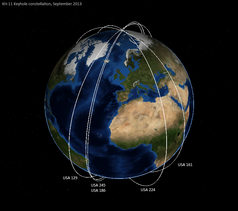 Shows the KH-11 Keyhole satellite orbital constellation, status September 2013.